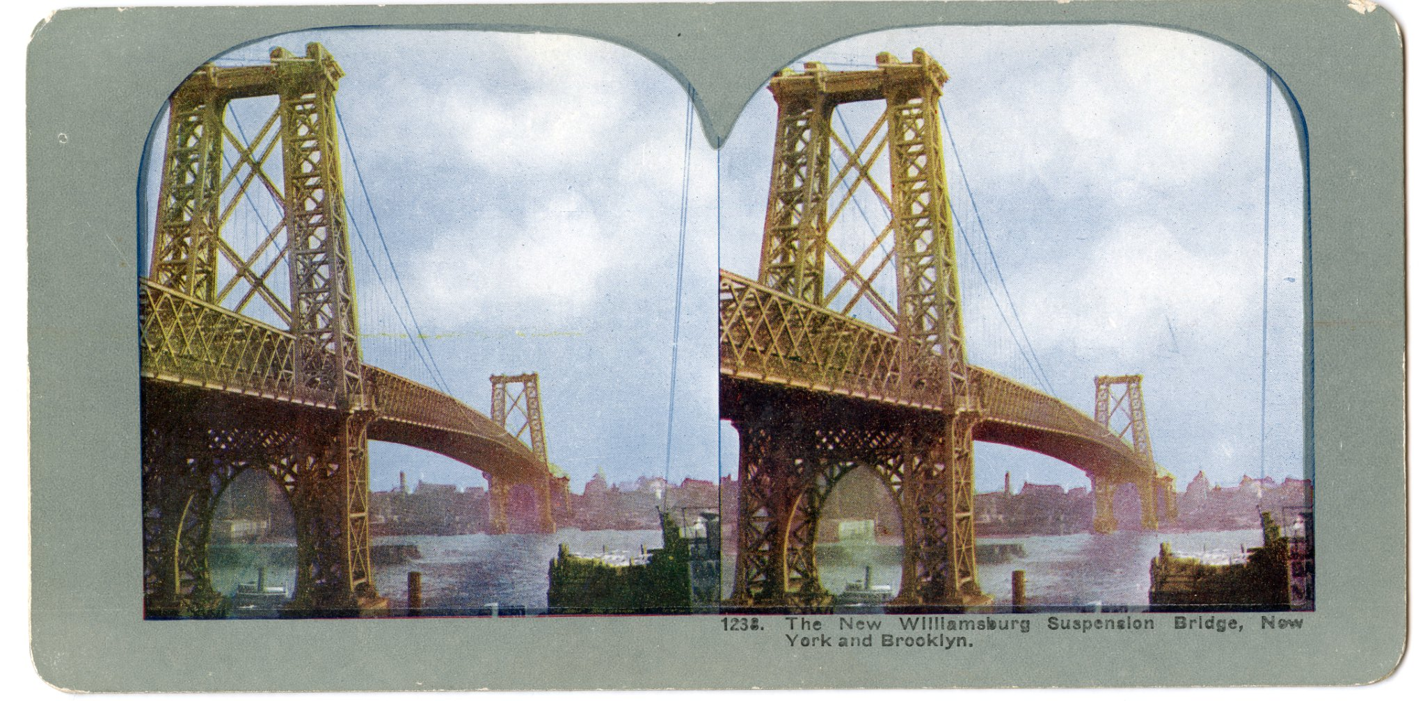 I picked this up because the bridge was designed by Leffert Lefferts Buck, a childhood friend of Virgil Bogue. Some day I'll write a book about Bogue and his Plan of Seattle. Scanned from an old stereoscope card. NOTE: From a set of public domain images collected by Rob Ketcherside. He applied a CC license on Flickr because Flickr does not offer a PD option.